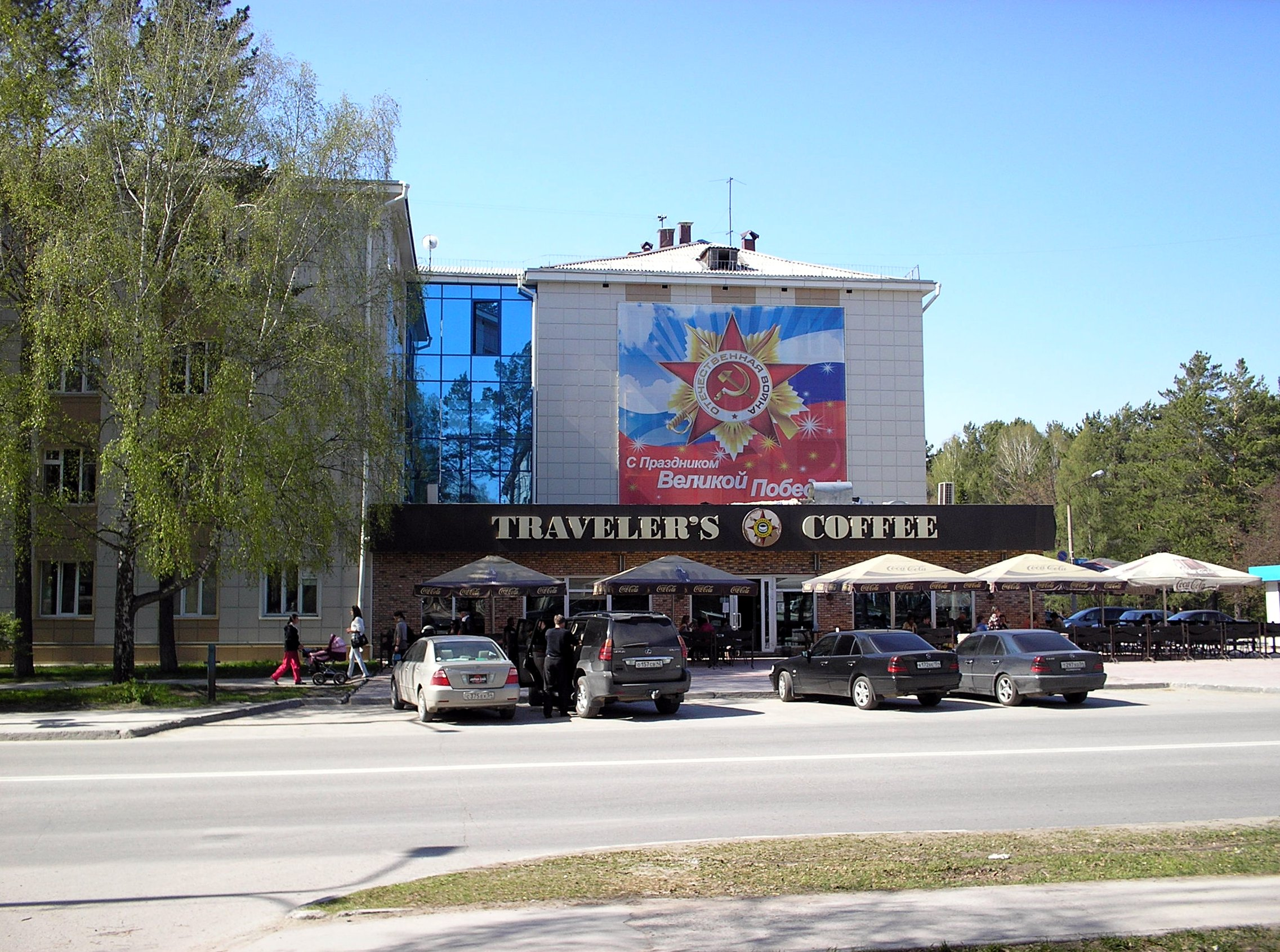 Traveler's Coffee coffeehouse in Akademgorodok, Novosibirsk, Russia